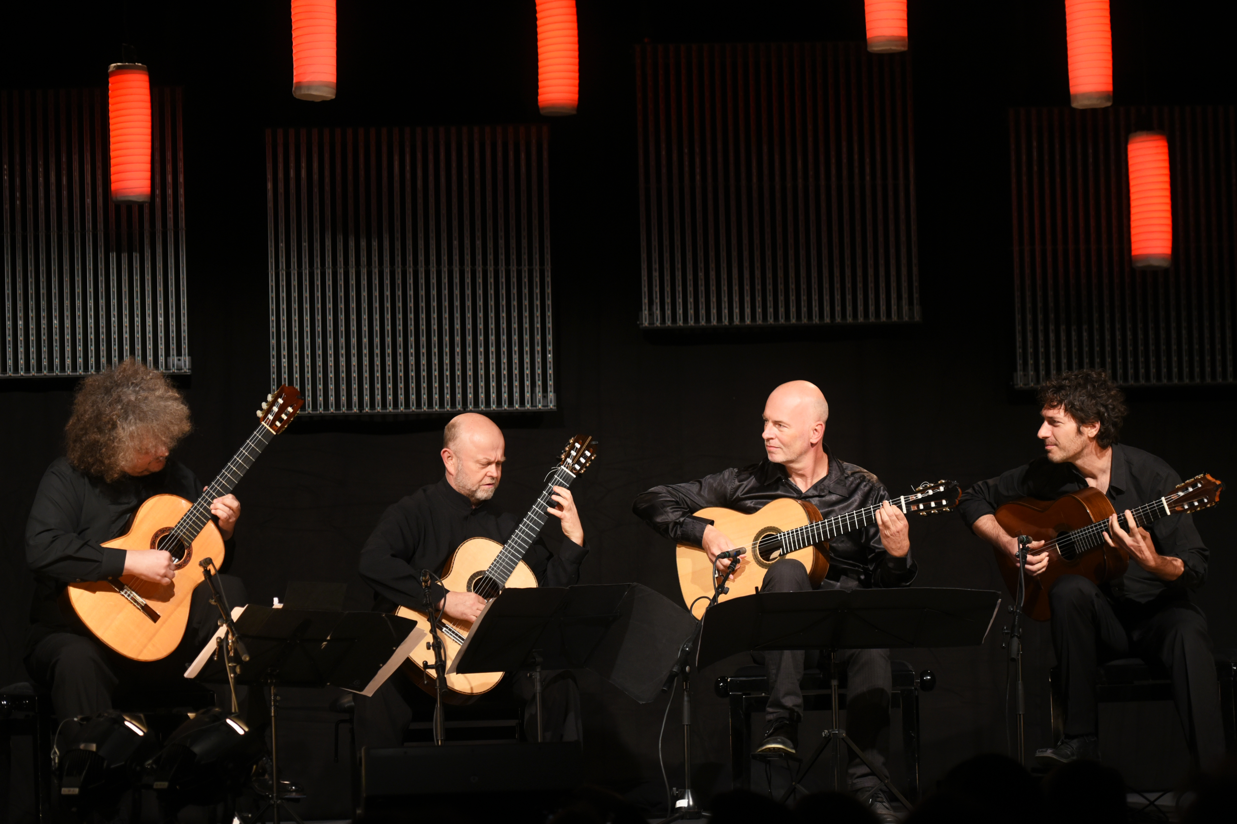 European Guitar Quartet playing at Hamburger Gitarrenfestival 2018